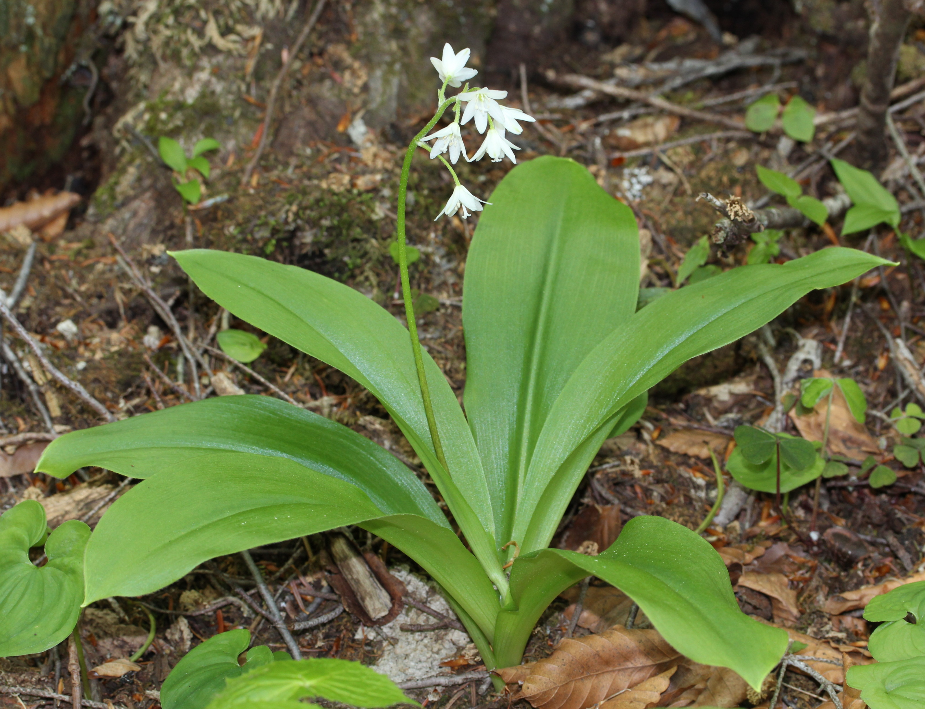 Clintonia udensis in Mount Mominuka, Gifu pref., Japan.